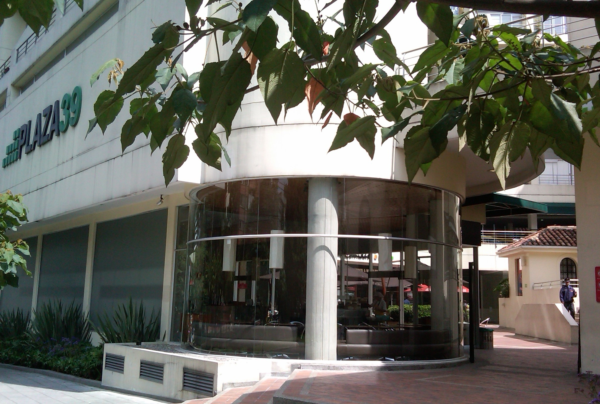 The Plaza 39 shopping mall in Bogotá, Colombia